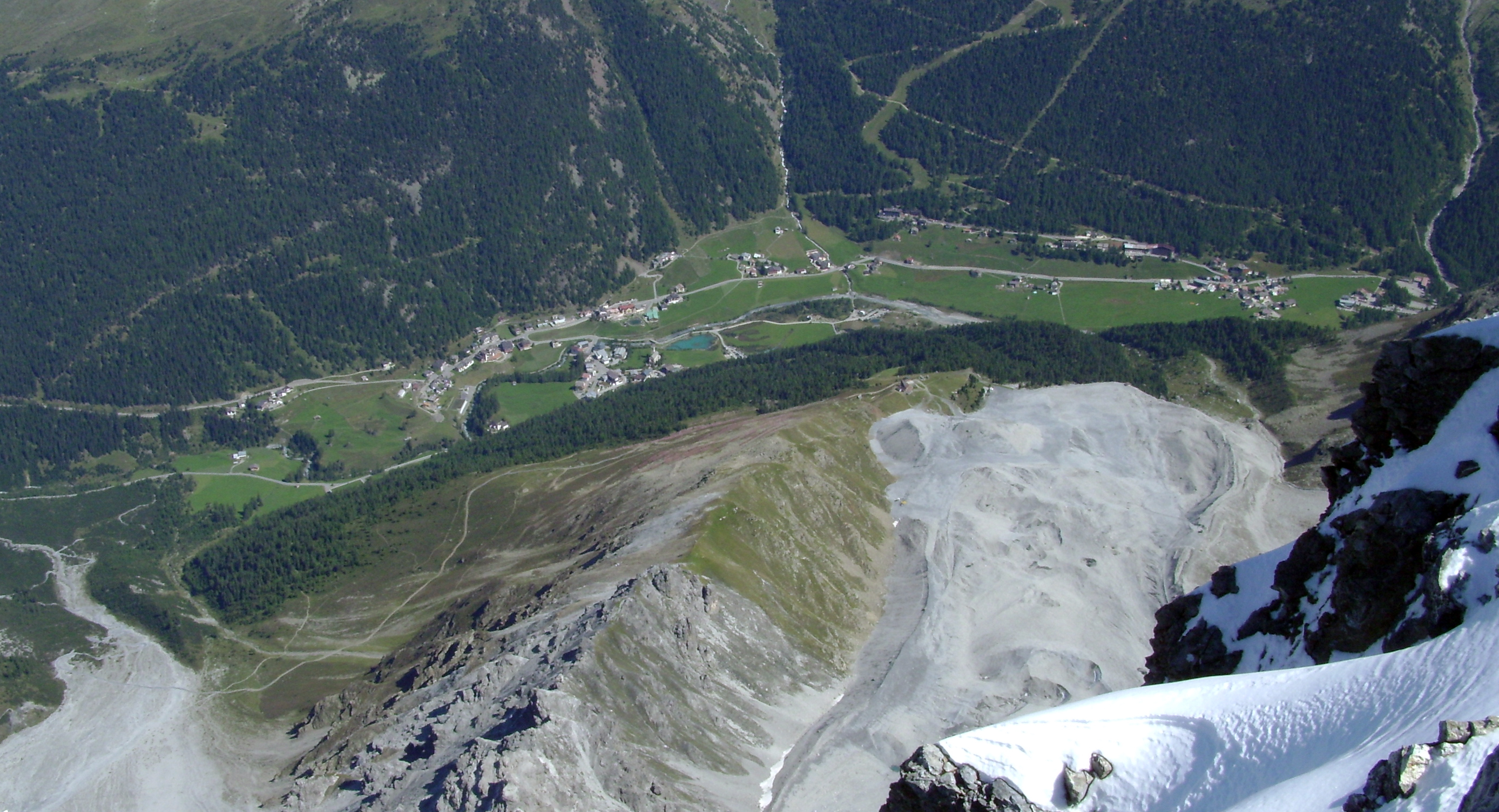 Sulden from Ortler summit